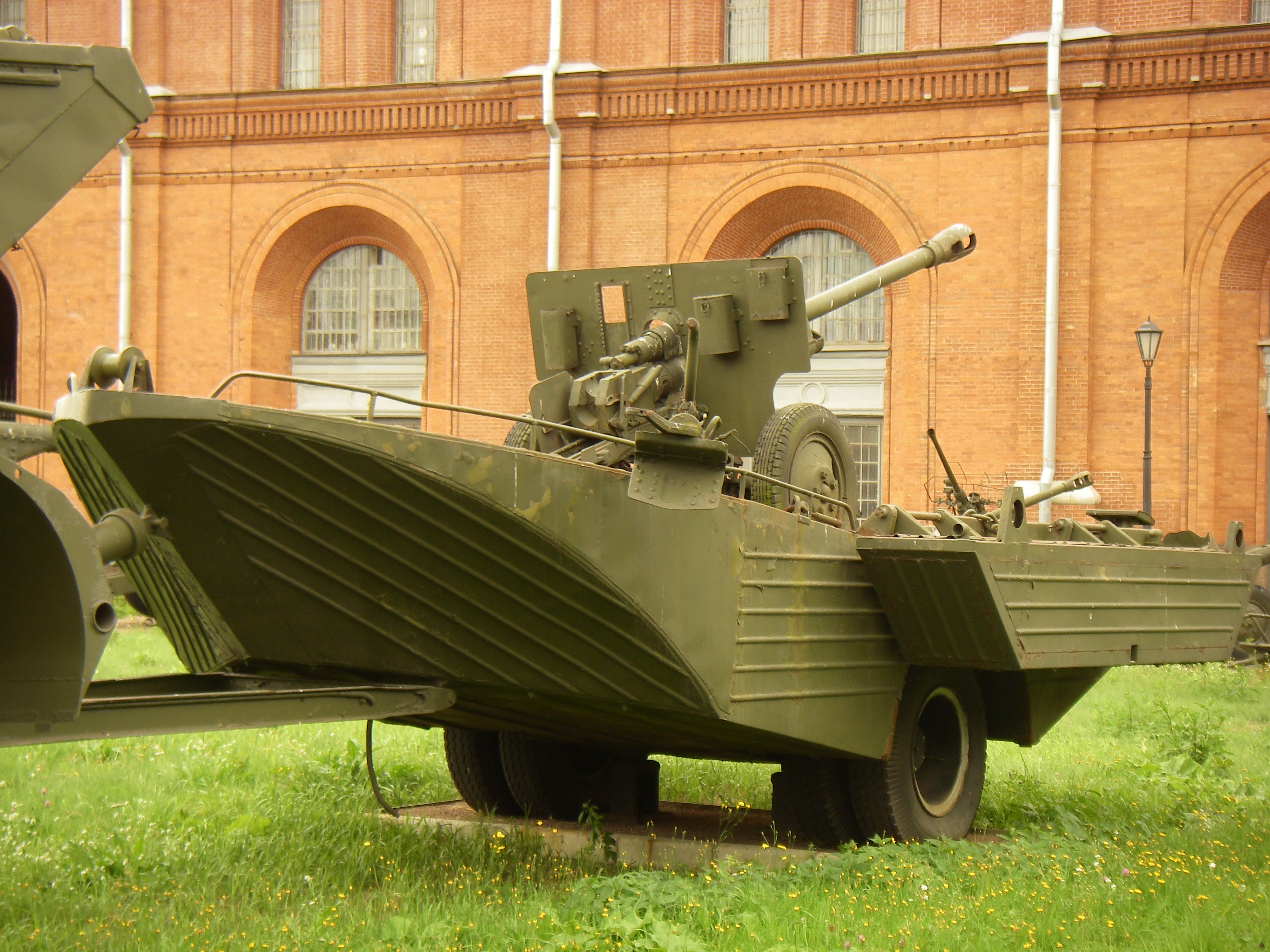 PKP trailer attached to the amphibian carrier PTS-2 in Saint Petersburg Artillery museum